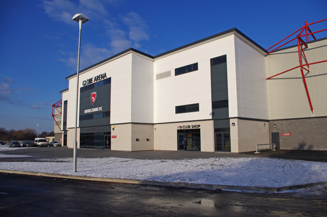 The Globe ArenaThe new stadium for Morecambe FC (The Shrimps), opened for the 2010/11 season. This is the Peter McGuigan Stand, named after the club chairman, on the south side.